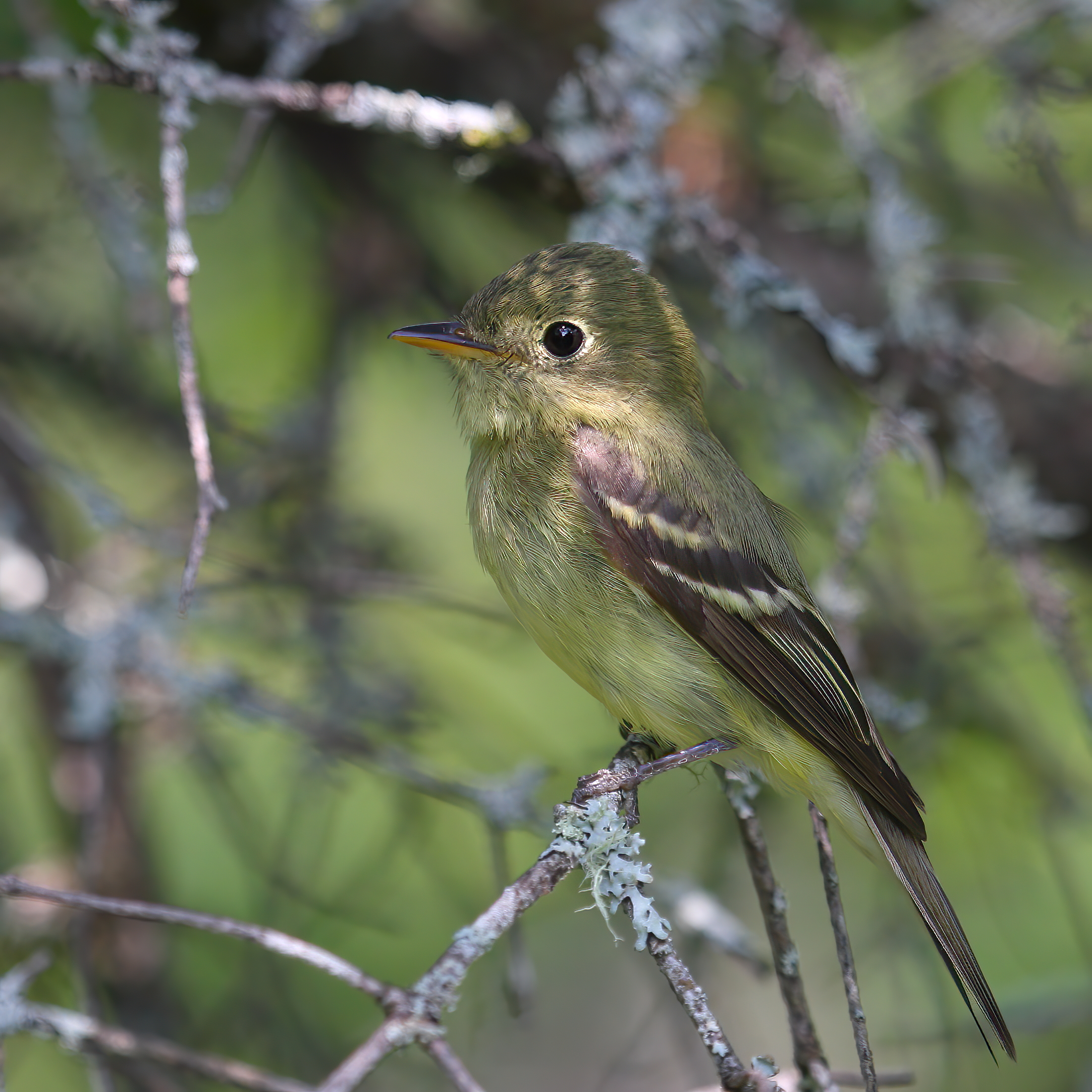 Yellow-bellied Flycatcher, Grands-Jardins National Park, Quebec, Canada.